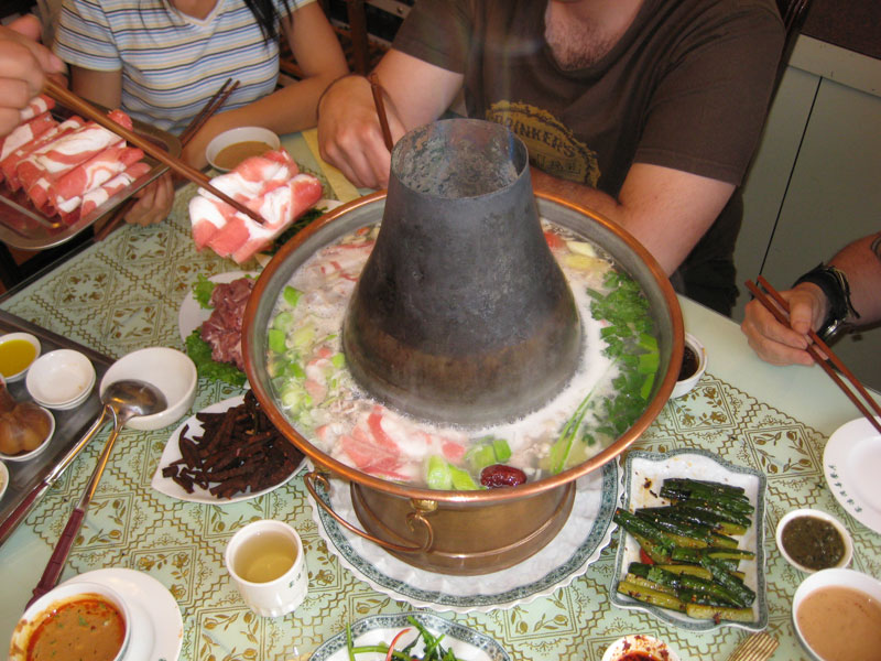 Mongolian Hotpot restaurant in the city of Wuhai, China.